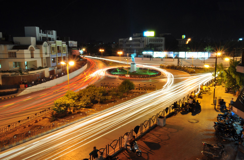 Under bridge Circle, Rajkot